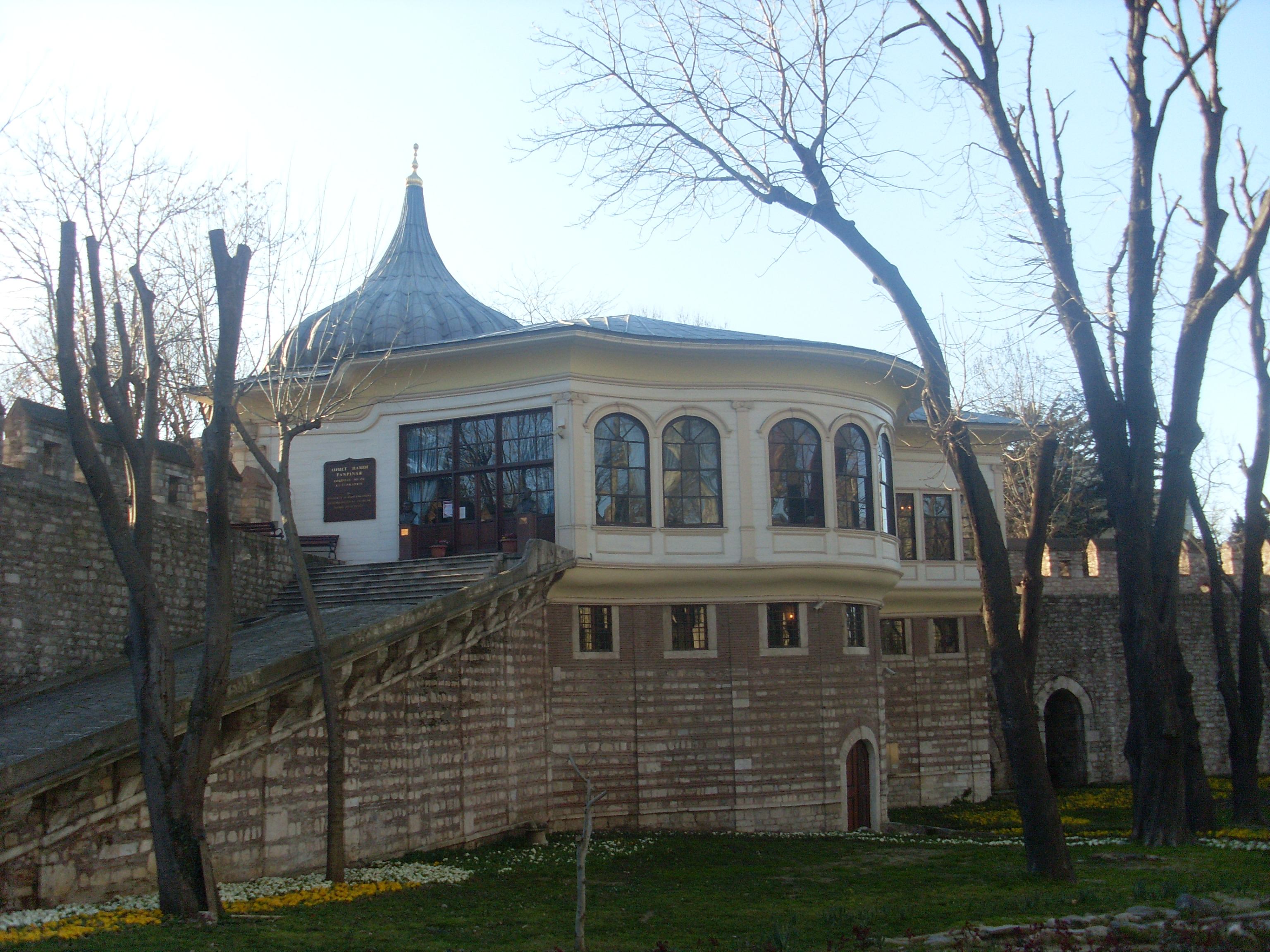 İstanbul - Procession Kiosk